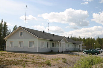 Lentäjänmaja at Pudasjärvi Airfield (EFPU) in Pudasjärvi, Finland